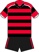 Cardiff Cobras 2014-15